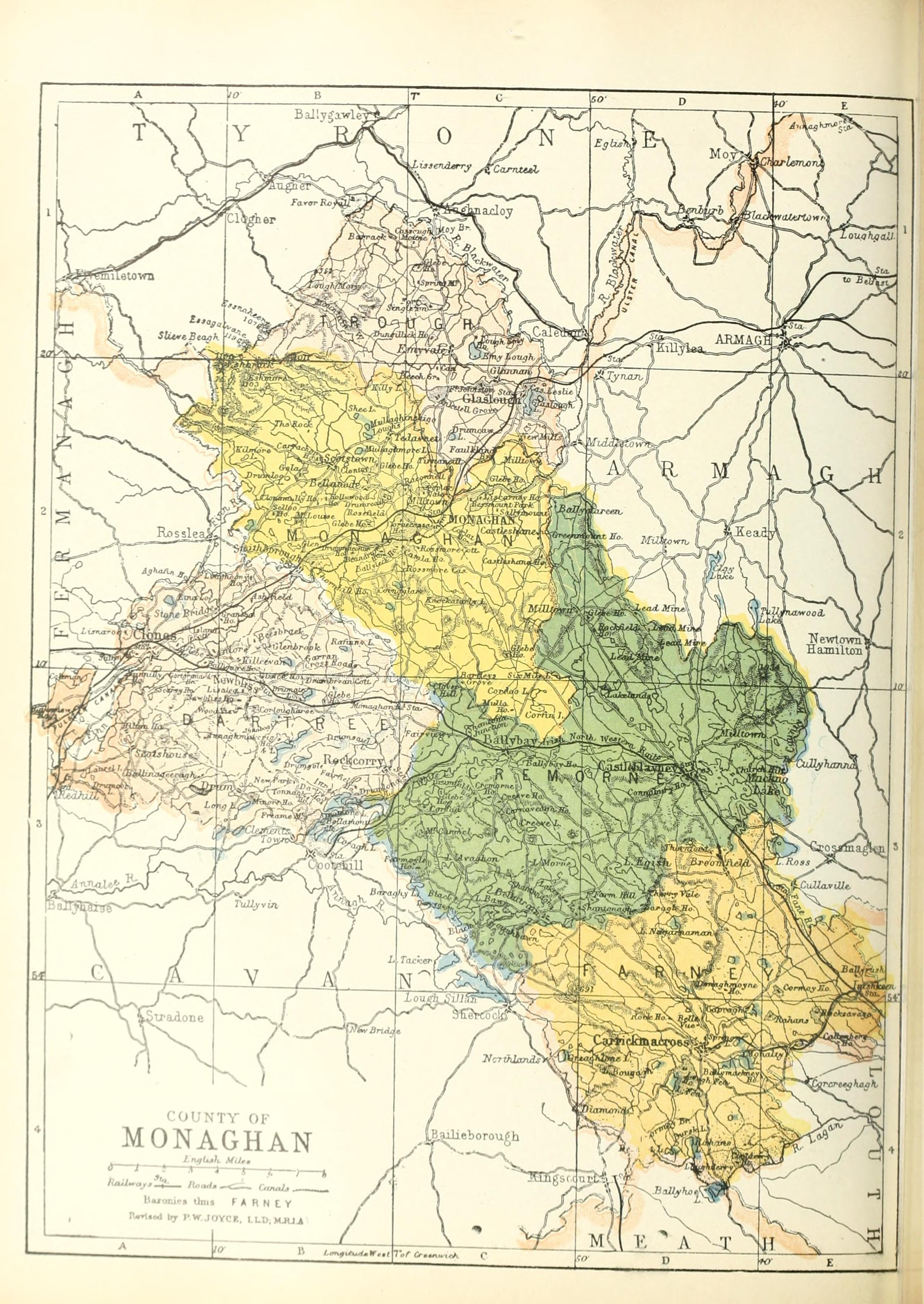 Map of the baronies of County Monaghan in Ireland; taken from Atlas and cyclopedia of Ireland, p.237